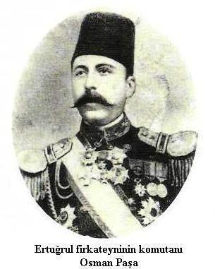 Admiral Ali Osman Pasha Ottoman monarch Sultan Abdul Hamid II was deeply impressed by Japan’s rapid modernization following the Meiji Restoration of 1868. His government approached Japan in the hope of forging ties of friendship; to which the Meiji government responded by dispatching Prince Komatsu-no-miya Akihito to Constantinople in 1887 to affirm its mutual sentiment. The Ottomans continued the exchange by sending the frigate Ertugrul on a goodwill visit to Japan in July 1889.. Heading the Ottoman mission was Admiral Ali Osman Pasha. He and his crew of over 600 sailors and officers arrived in Yokohama aboard the 2,344-ton, 76-meter Ertugrul in June 1890 after a long and trouble-prone voyage. While in Japan, the admiral received an audience with Emperor Meiji, presenting the monarch with gifts and bestowing prestigious titles of the Ottoman Empire. After a three-month stay, the Ertugrul set sail from Yokohama on its return voyage on September 15. During its call the contingent had lost several crew members in a cholera outbreak, but worse still awaited the ill-fated mission. The Ertugrul encountered a typhoon a day out of Yokohama. Tossed by wind and waves throughout the night of September 16, the vessel ultimately broke up on rocks off the island of Kii Ōshima in the present-day town of Kushimoto, Wakayama Prefecture. Five hundred eighty-seven sailors and officers perished, including Admiral Ali Osman Pasha and the ship’s captain. Kii Ōshima islanders braved the typhoon, making frantic efforts to save 69 members of the vessel’s contingent. Word of their heroic deeds soon reached Turkey, where it elicited an effusion of pro-Japanese sentiment. That sentiment has endured, inspiring a cinematic dramatization of the incident—a joint Turkish-Japanese production—which will open in theaters in both nations this December.